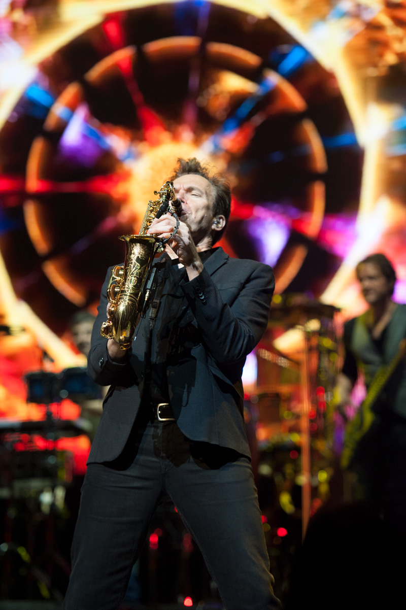 Ray Herrmann on stage with the band Chicago at the EKU Center for the Arts in Richmond, KY on March 31st, 2019. Photo by Cynthia Hurt Photography.